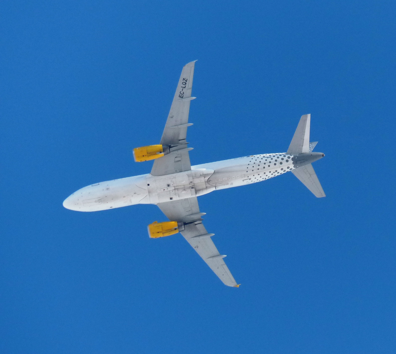 at roughly 5,800 ft